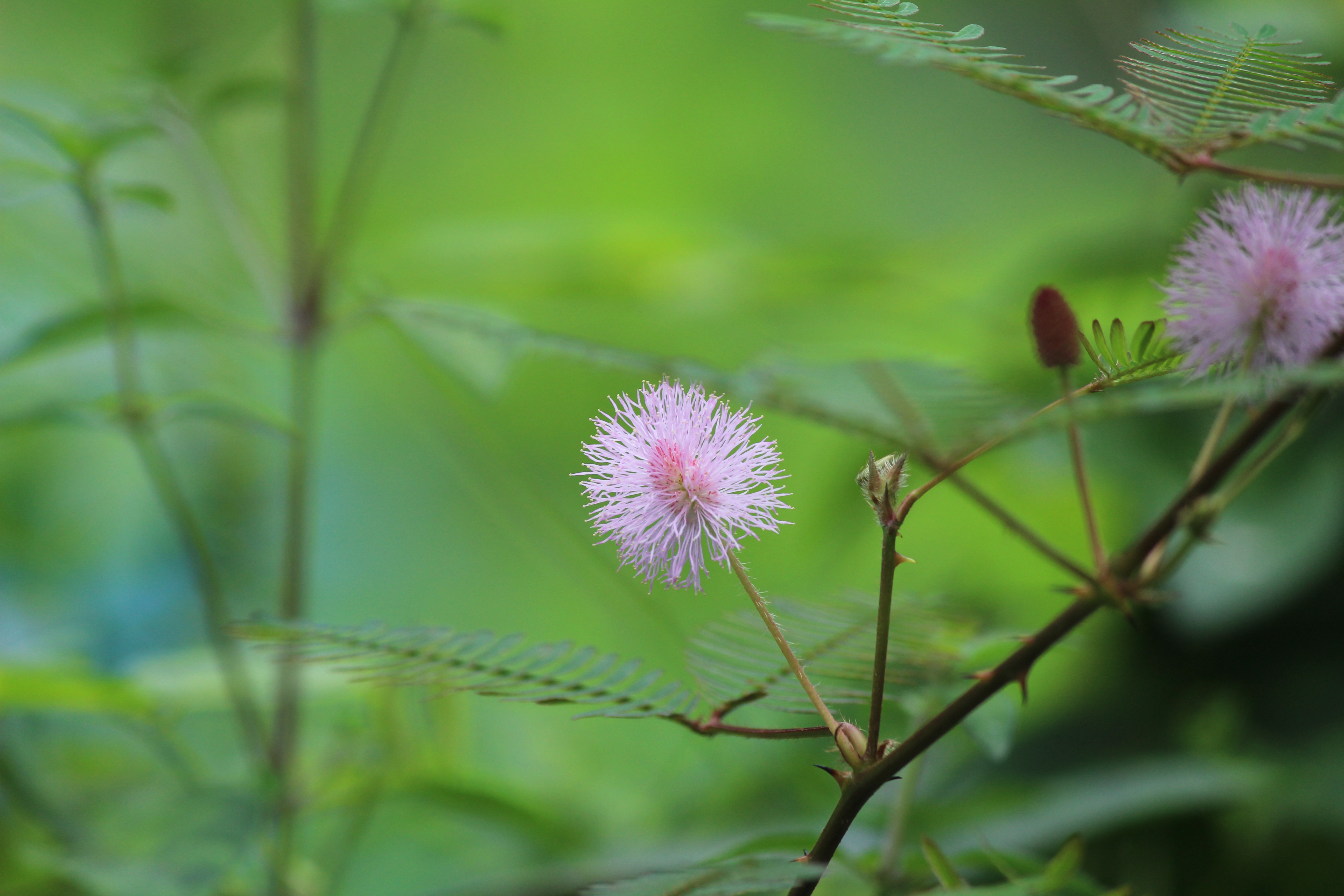 Mimosa pudica